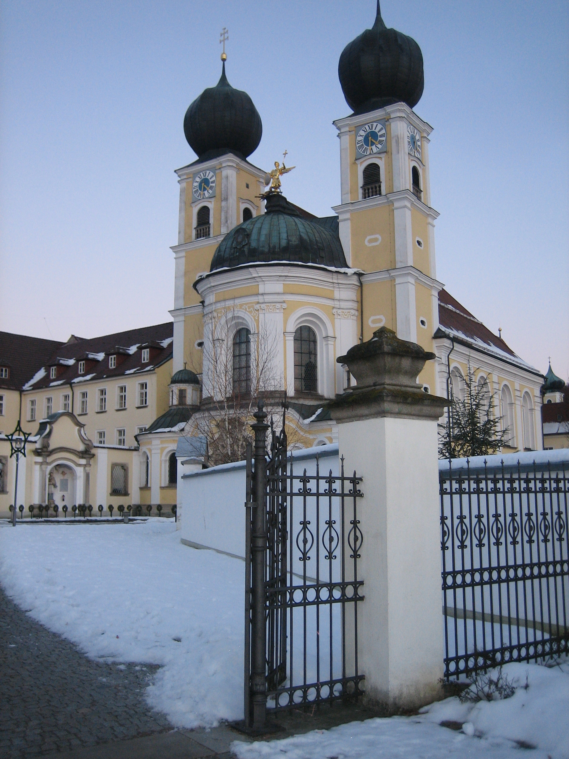 Abbey of St. Michael at Metten in Germany dt: Abtei Metten oder Kloster Metten) I took this picture on Januar 3rd 2006 and release it into Pd.